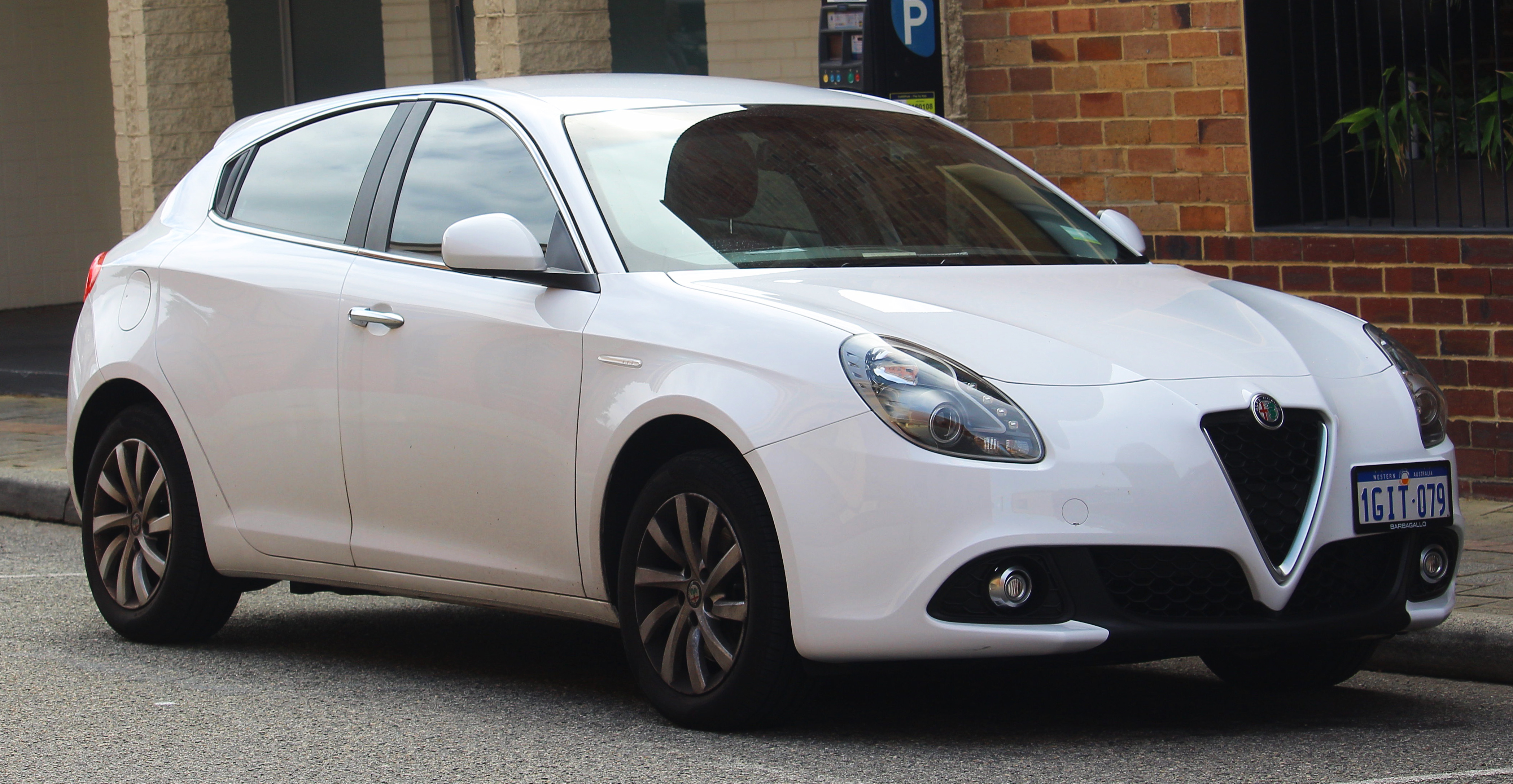 2017 Alfa Romeo Giulietta (940 Series 2) Super hatchback. Photographed in Fremantle, Western Australia, Australia.